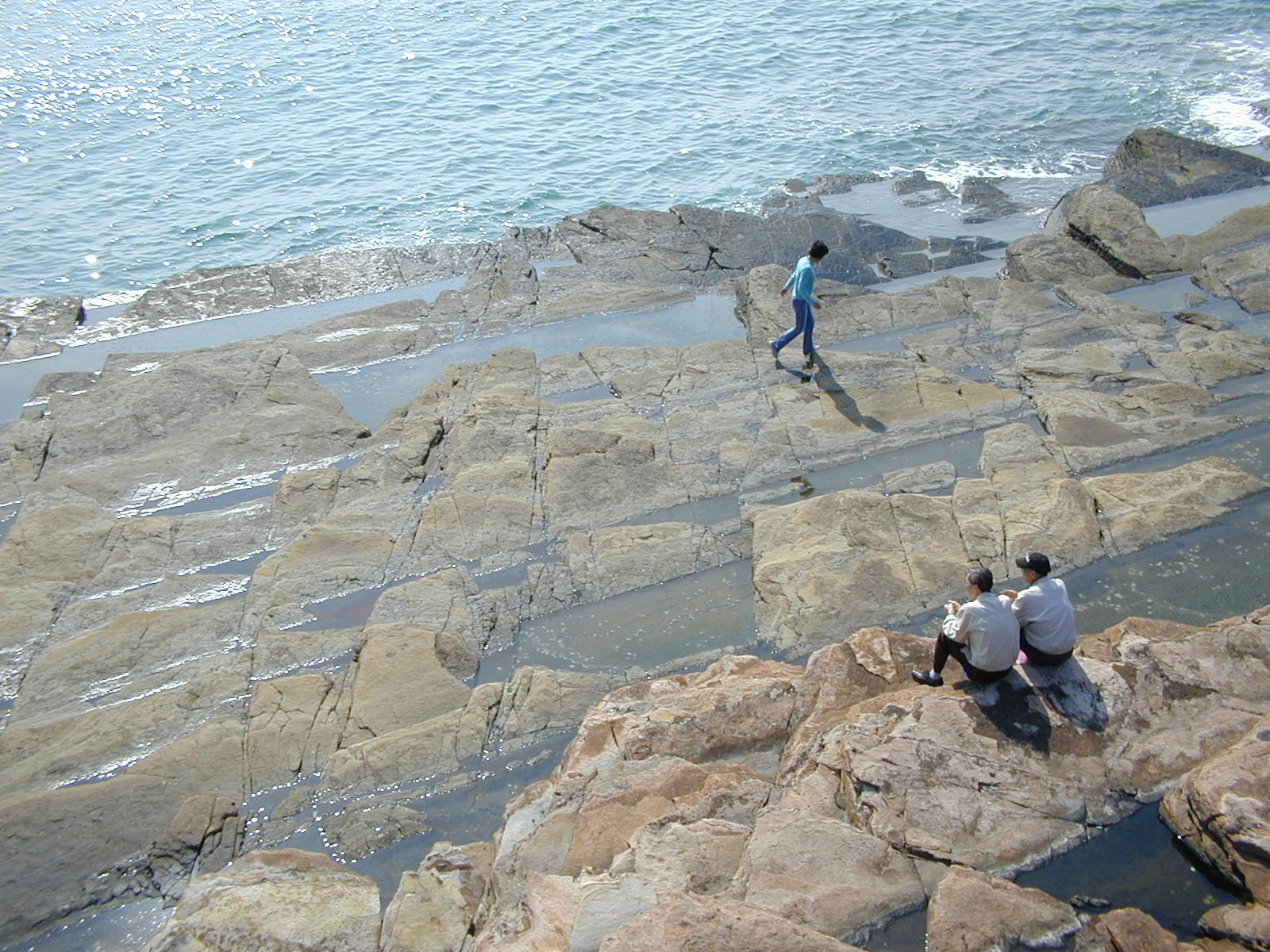 Photo of Ping Chau in Hong Kong. The rocks are part of the Ping Chau Formation of Paleogene age.